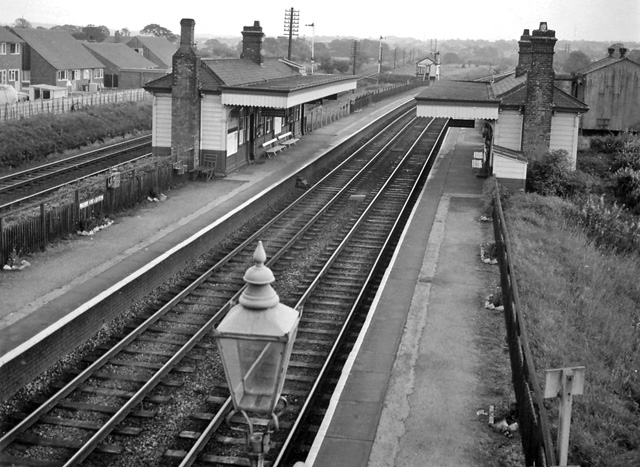 Balshaw Lane & Euxton Station. View southward from A581 bridge, towards Wigan (West Coast Main Line), with platforms only on Slow lines. Closed 6/10/69, but replaced by new station, Euxton & Balshaw Lane on 15/12/97, ¼ mile to south.